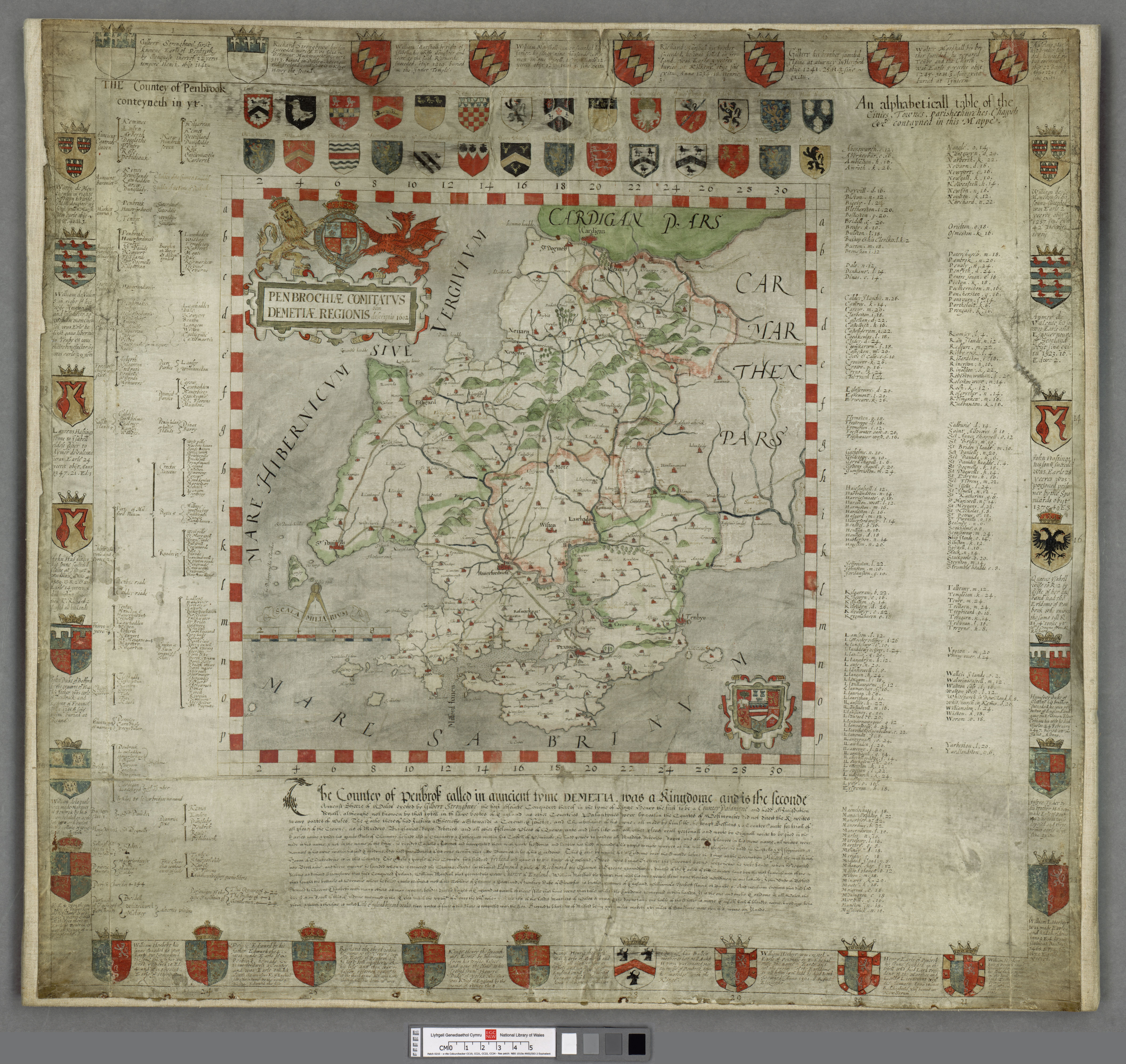 Shows Pembrokeshire, (partial information on adjacent counties). Identifies towns, larger villages, roads and rivers with diagramatic representation of hills, mountains and woodlands. Title, top left, below arms of Elizabeth I, scale, bottom left. Map periphery contains index to towns and villages and arms of families associated with Pembrokeshire.